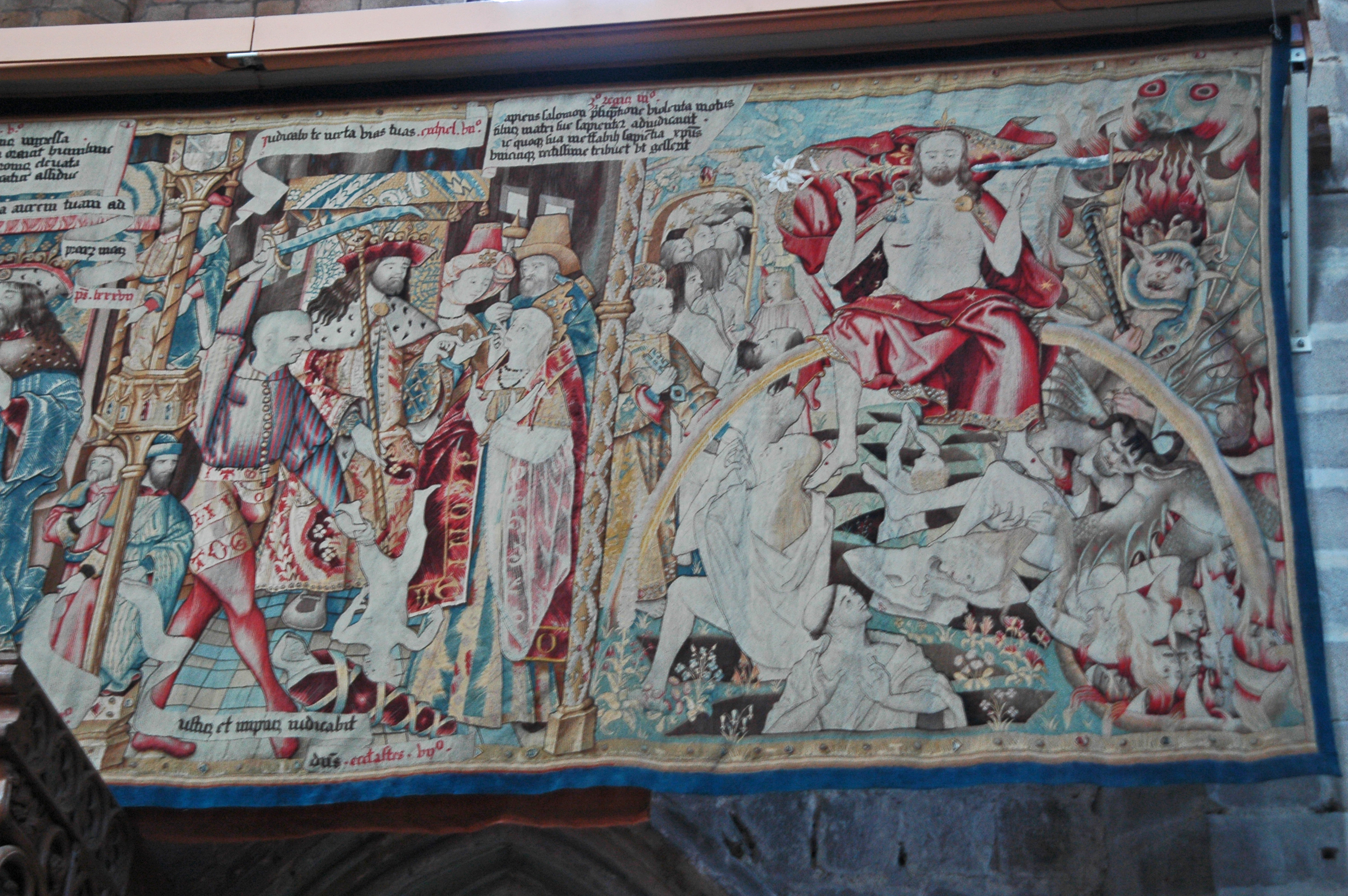 Flemish tapestry of the beginning of the 16th century, depicting scenes of the life of Christ; at the abbaye de la Chaise-Dieu